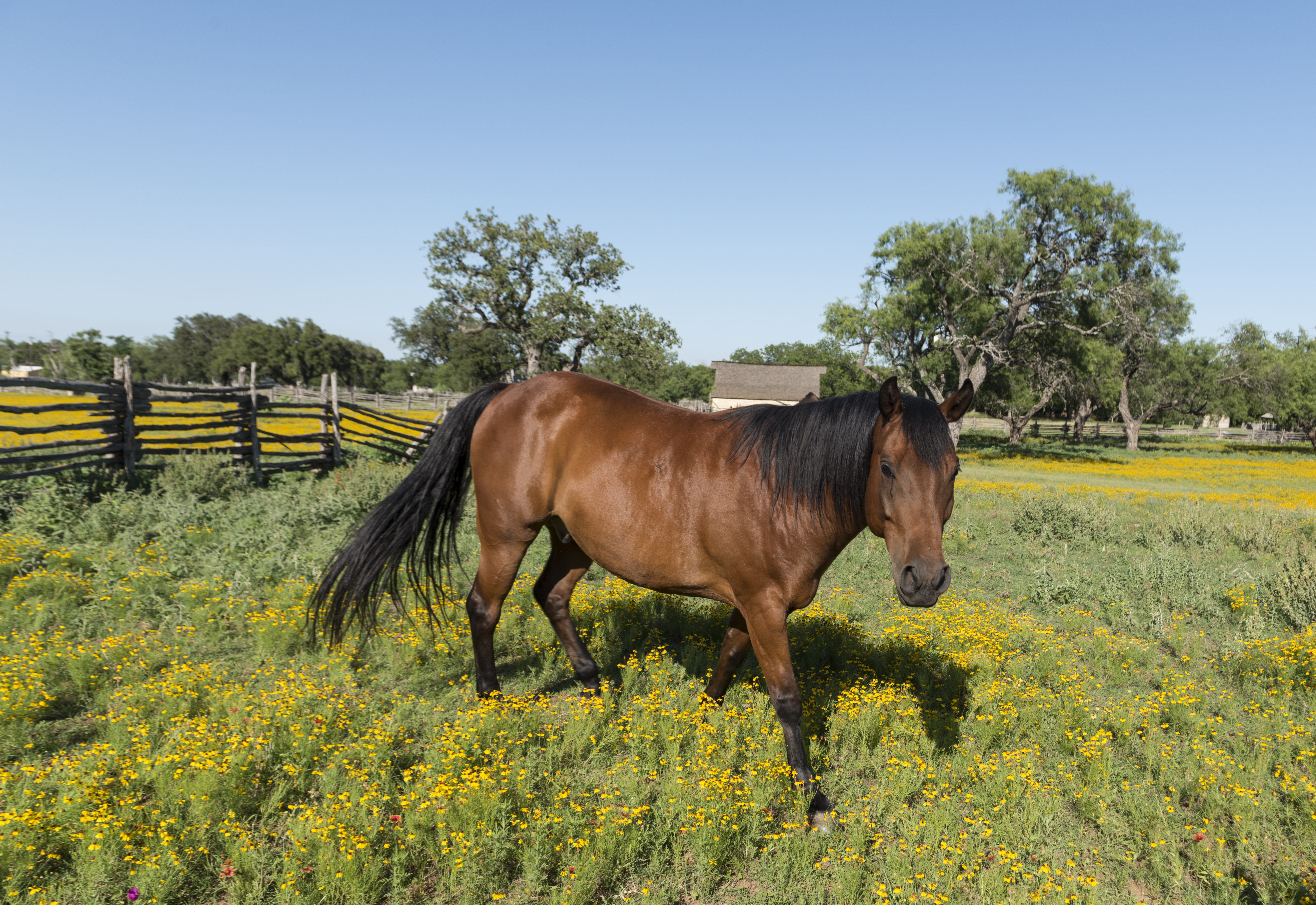 Horse in field in Lyndon B. Johnson National Historical Park in Johnson City, Texas, United States